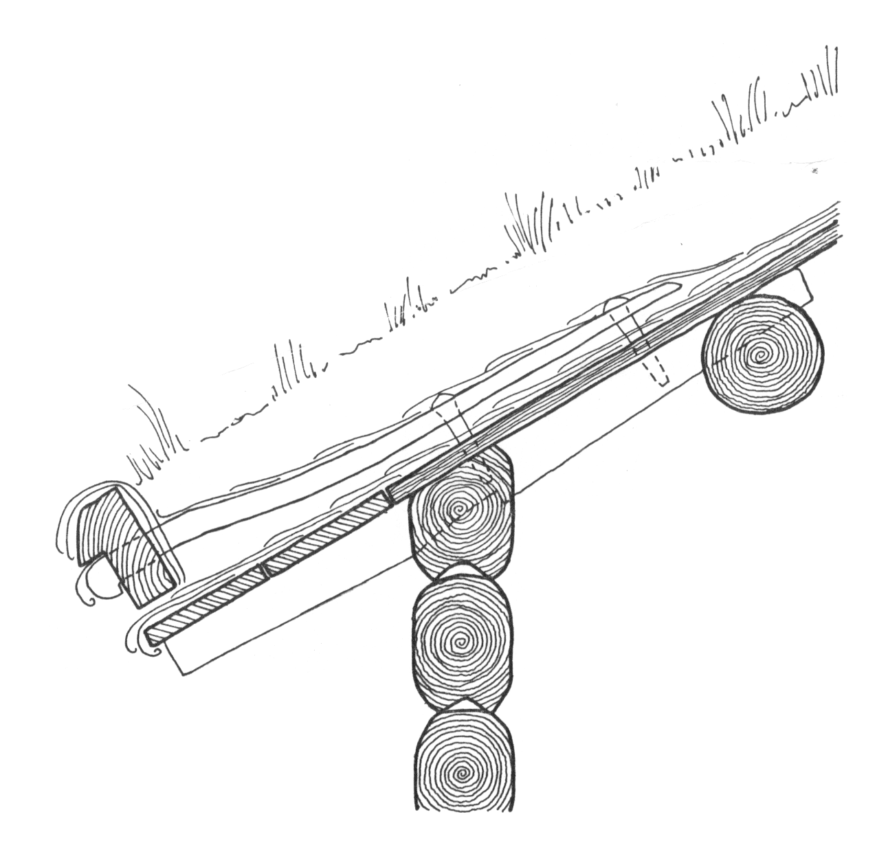 Section of traditional sod roof at eaves of a log house